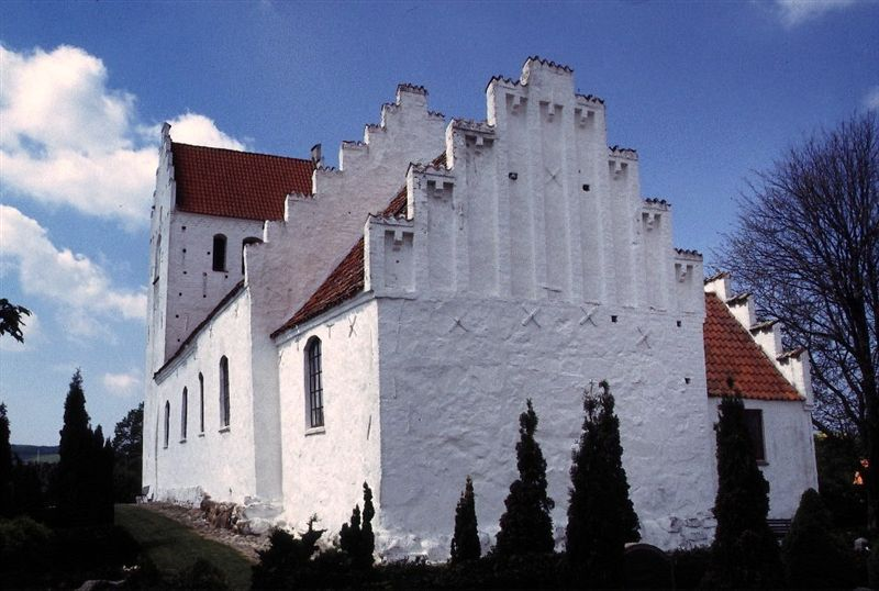 Fårevejle Kirke (church) in Odsherred Kommune. From apr. 1100